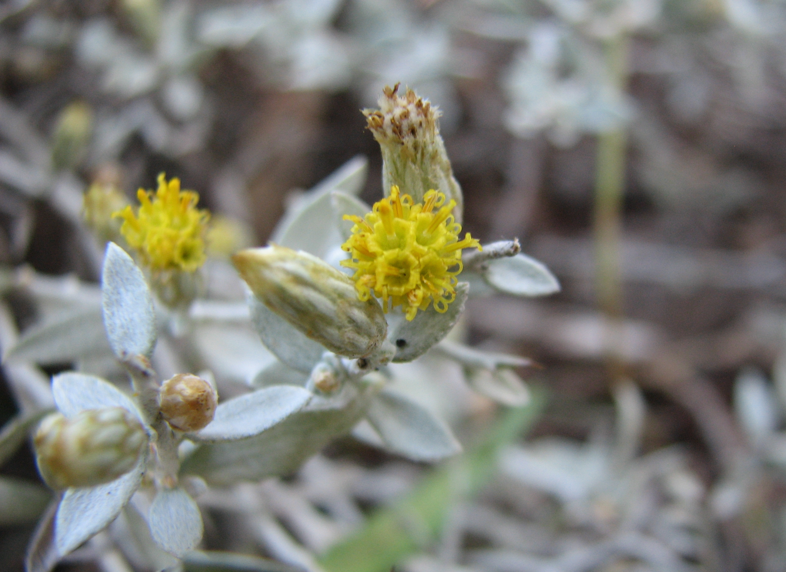 Acanthocladium dockeri (cultivated, labelled) , Royal Botanic Gardens Melbourne, Australia